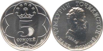 5 somoni